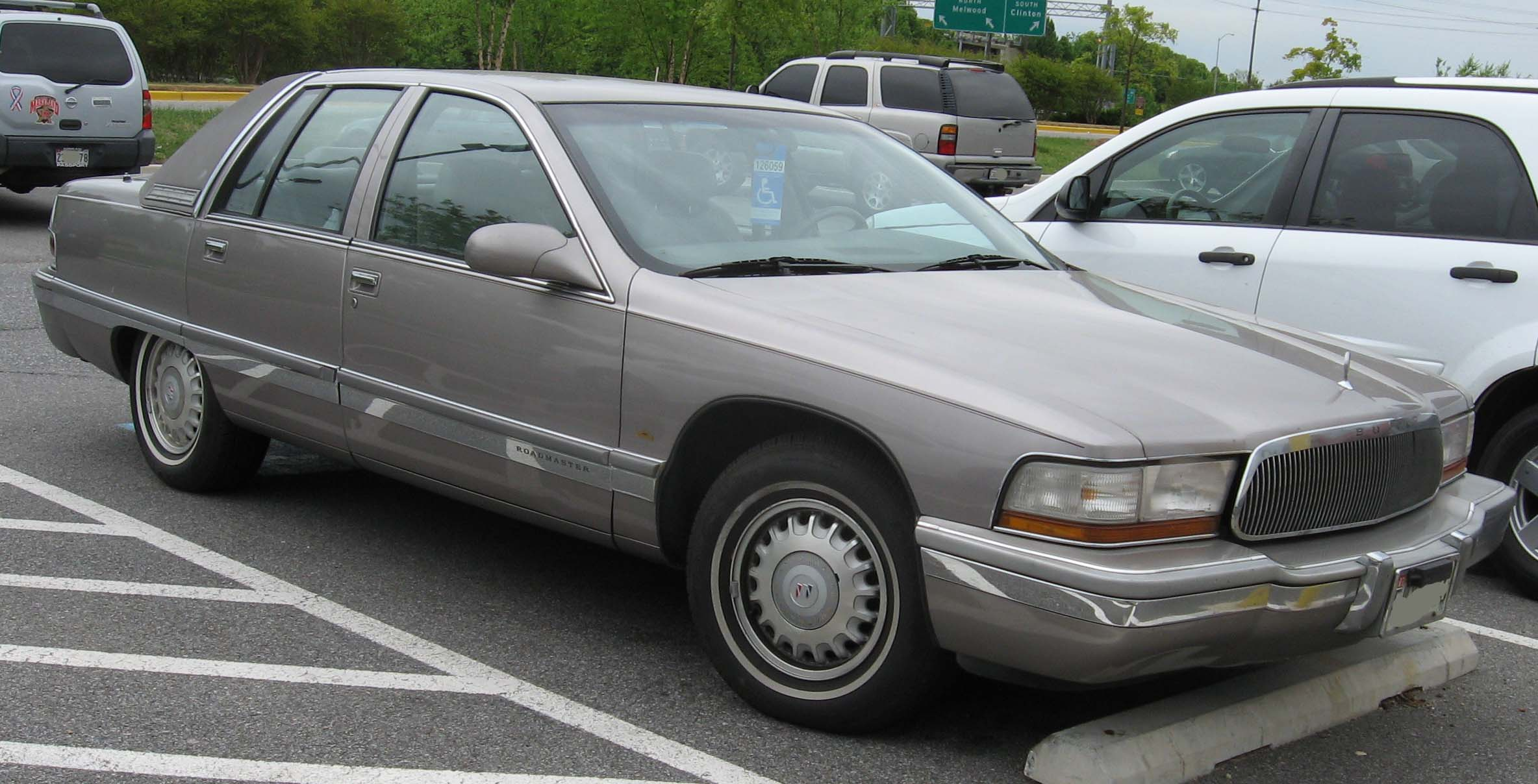 1991-1996 Buick Roadmaster photographed in USA.